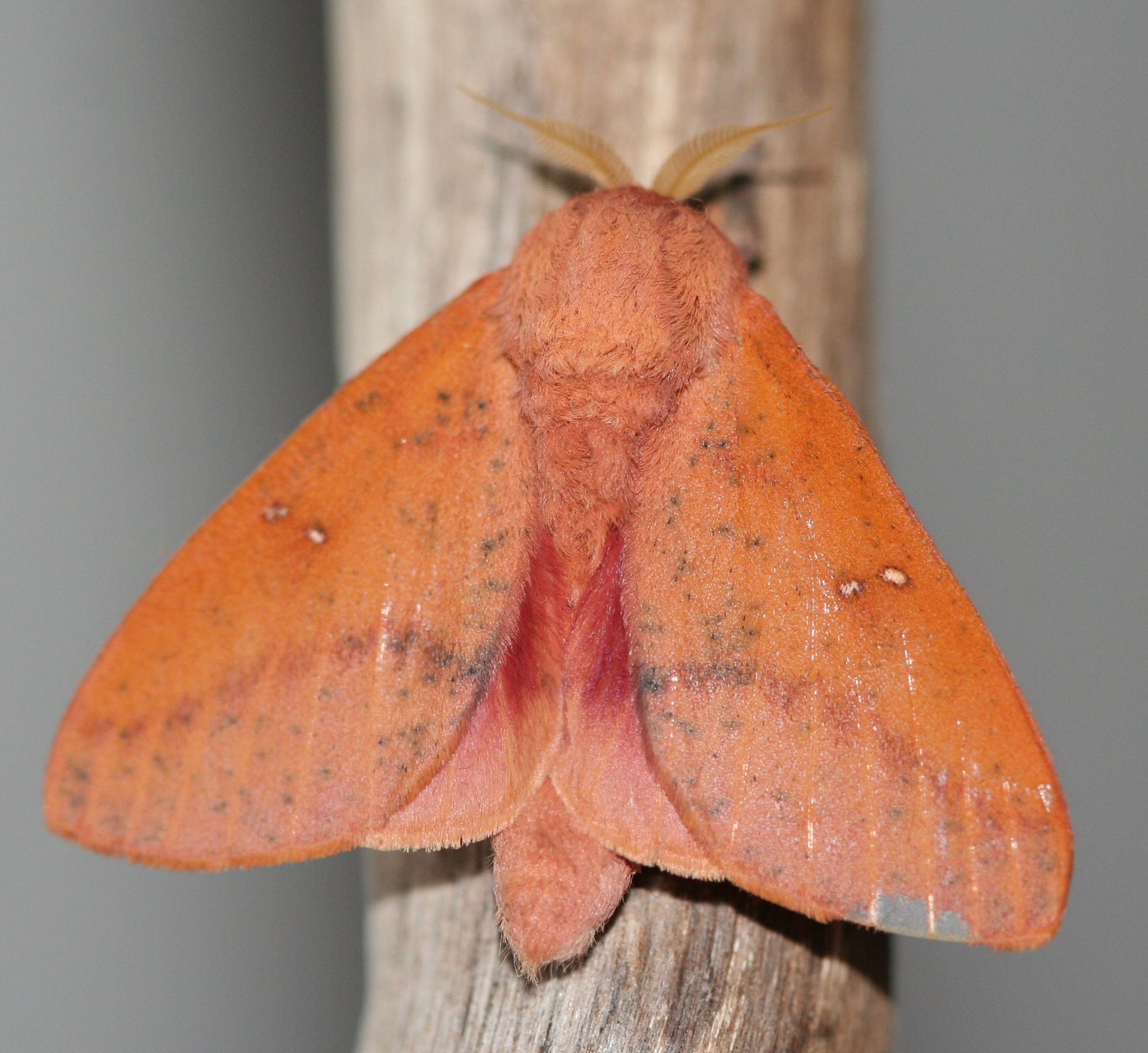 Honey Locust Moth (Sphingicampa bicolor)